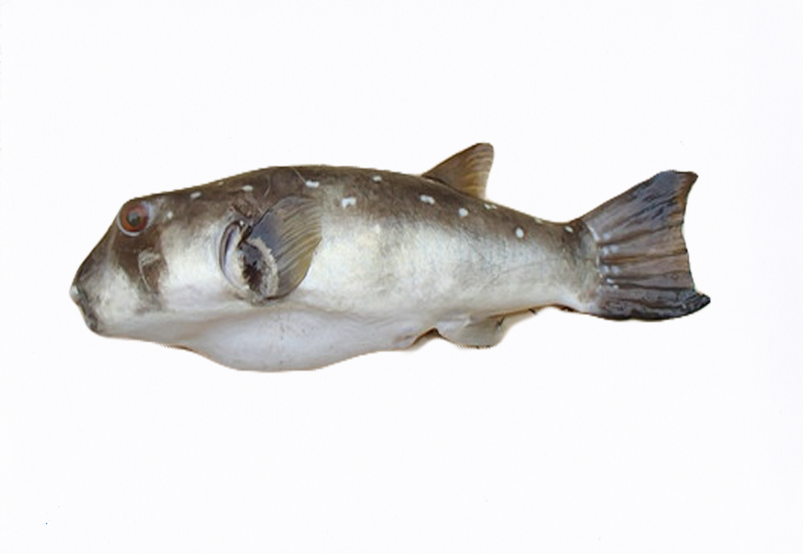 Ephippion guttifer on white background